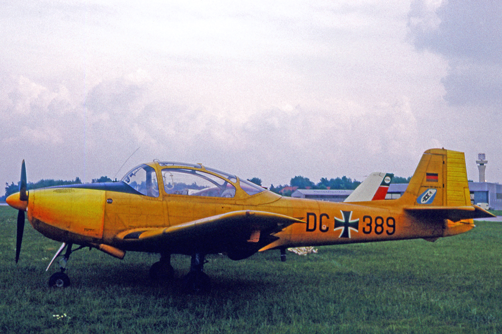 Piaggio FWP.149D DC+389 of the German Ar Force at Hannover Airport in 1966